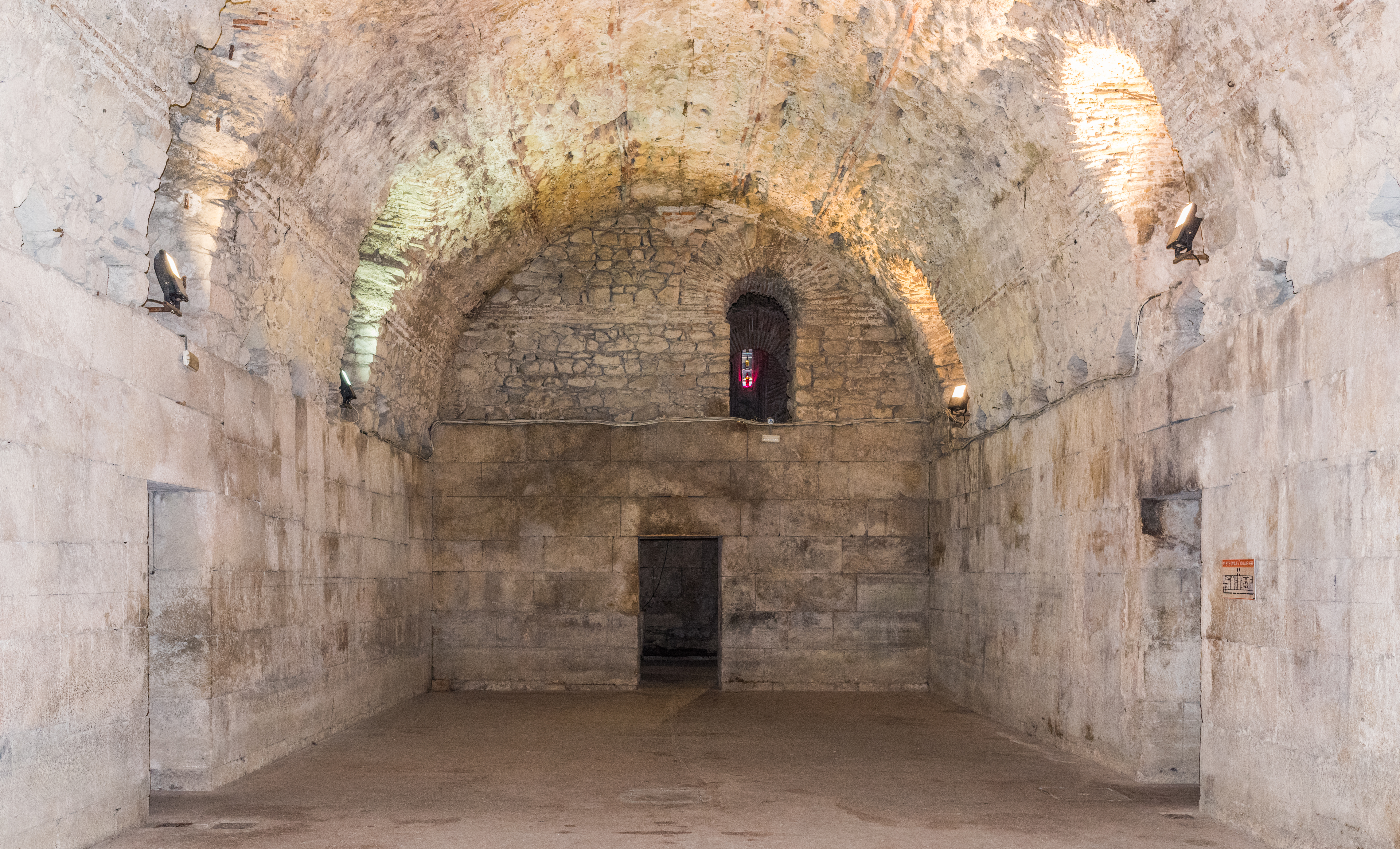 Split Croatia November 2017